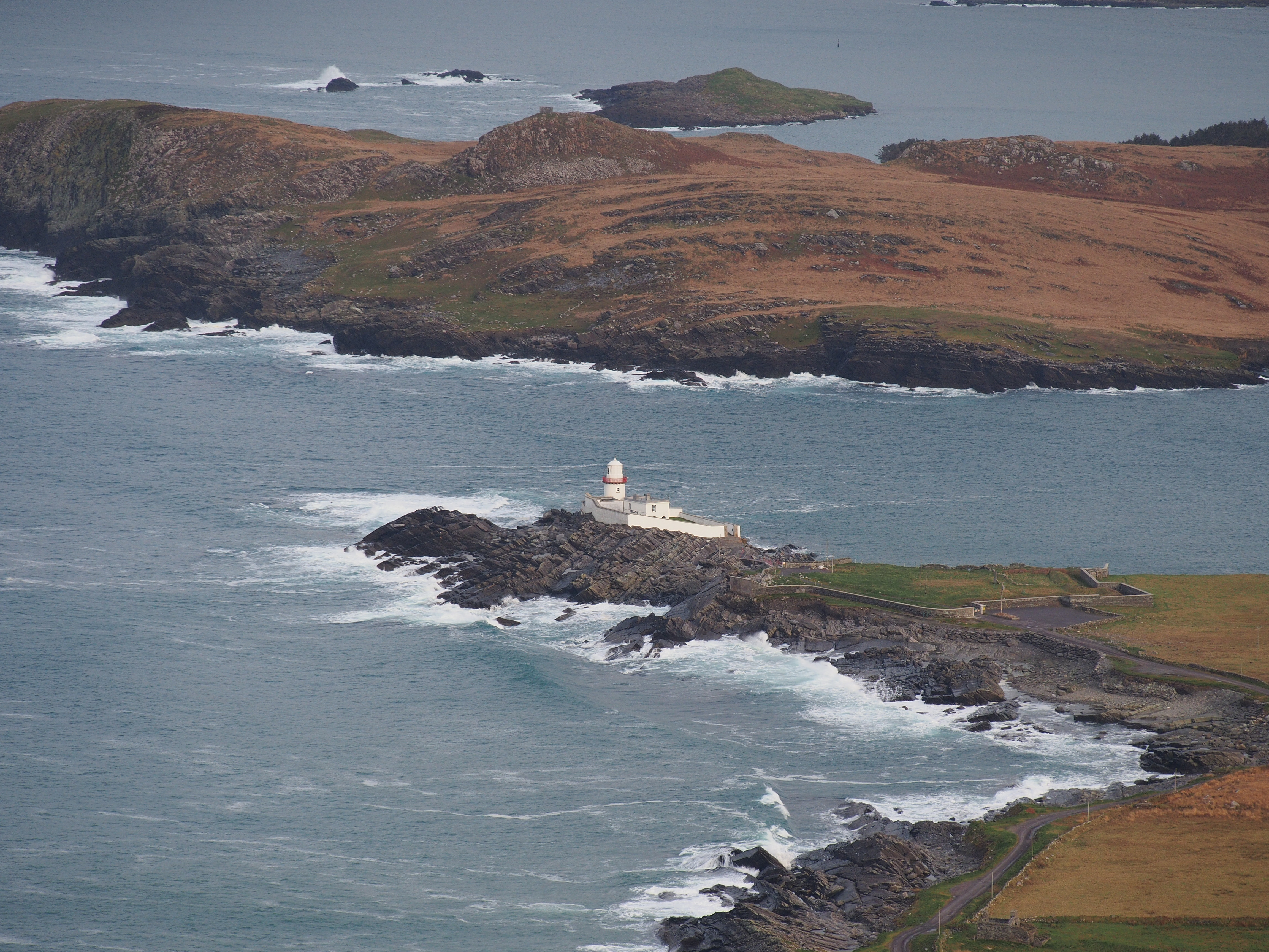 Valentia Lighthouse, Valentia Island, County Kerry, Ireland